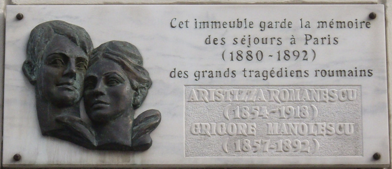 Commemorative plaque, 4 rue Croix-des-Petits-Champs, Paris "This preserves the memory of their time in Paris (1880-1892) of the great Romanian tragedians Aristizza Romanescu (1854-1918), Grigore Manolescu (1857-1892).